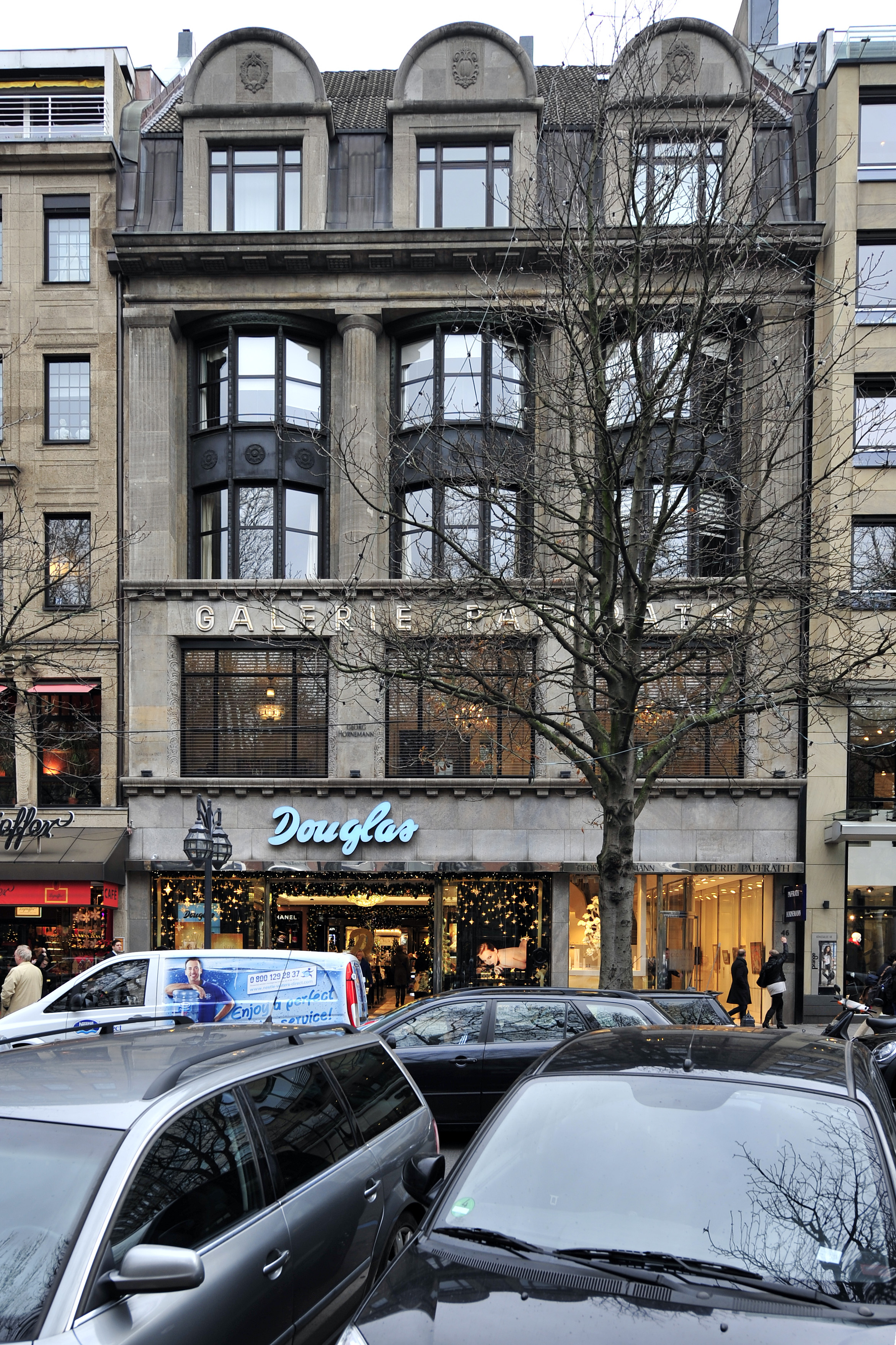 This is a photograph of an architectural monument. Königsallee 46